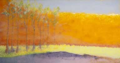 Example glass powder painting using the American artist Wolf Kahn for inspiration. 18x34